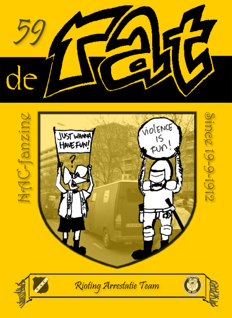 Cover of NAC Fanzine De Rat, number 59.